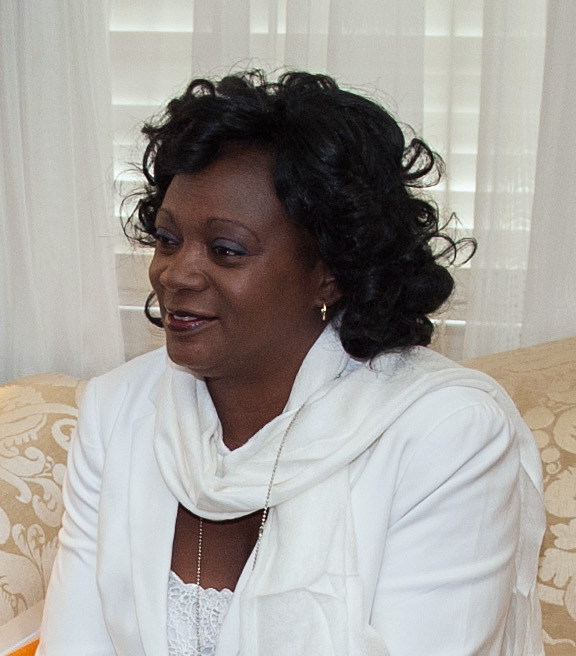 Under Secretary for Political Affairs Wendy Sherman meets with Berta Soler, Spokesperson for the Ladies in White (Damas de Blanco), at the U.S. Department of State in Washington, D.C., on October 24, 2013. [State Department photo/ Public Domain]